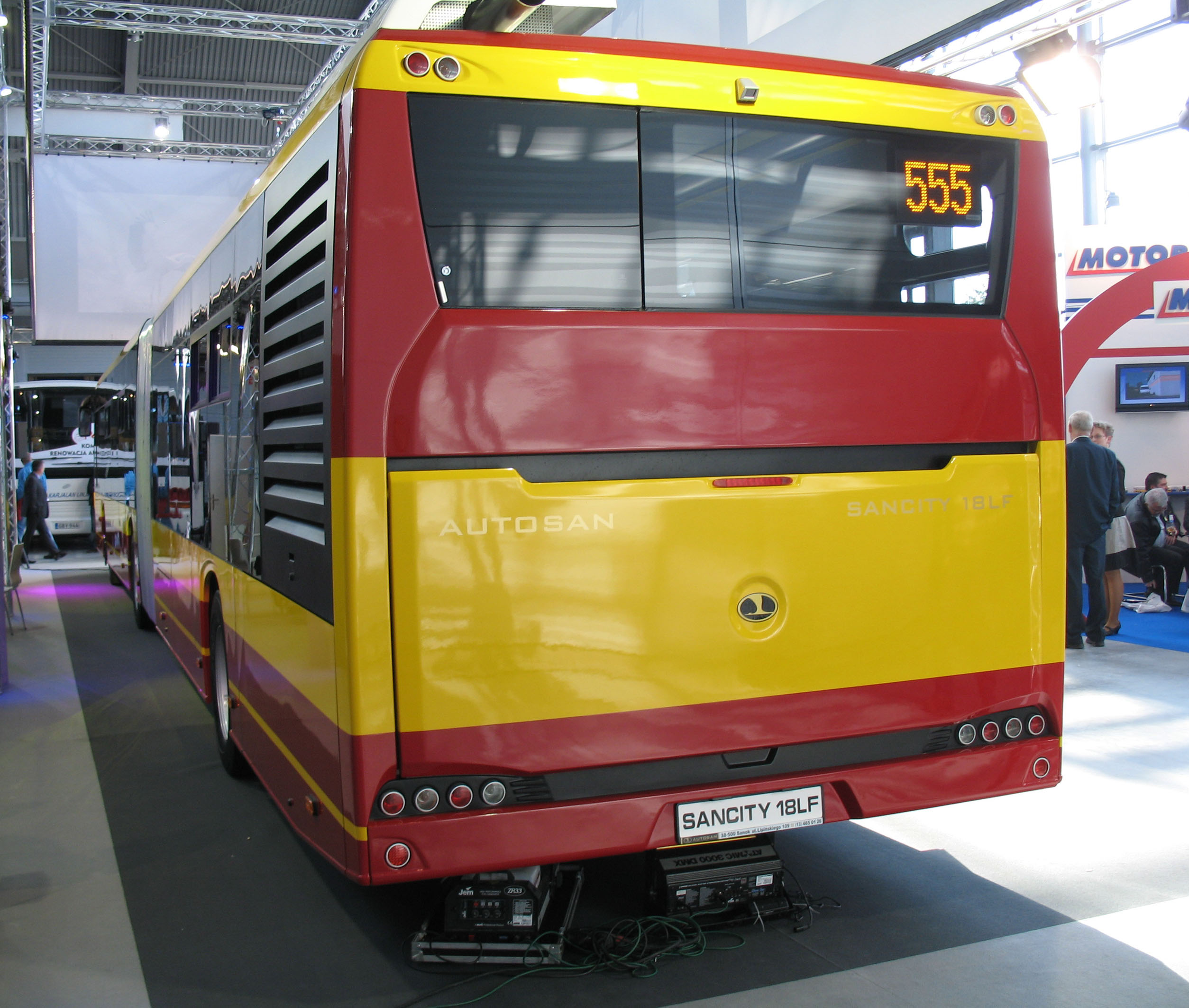 Autosan Sancity 18 LF articulated city bus in Kielce, Poland. Built 2010. Transexpo 2010.